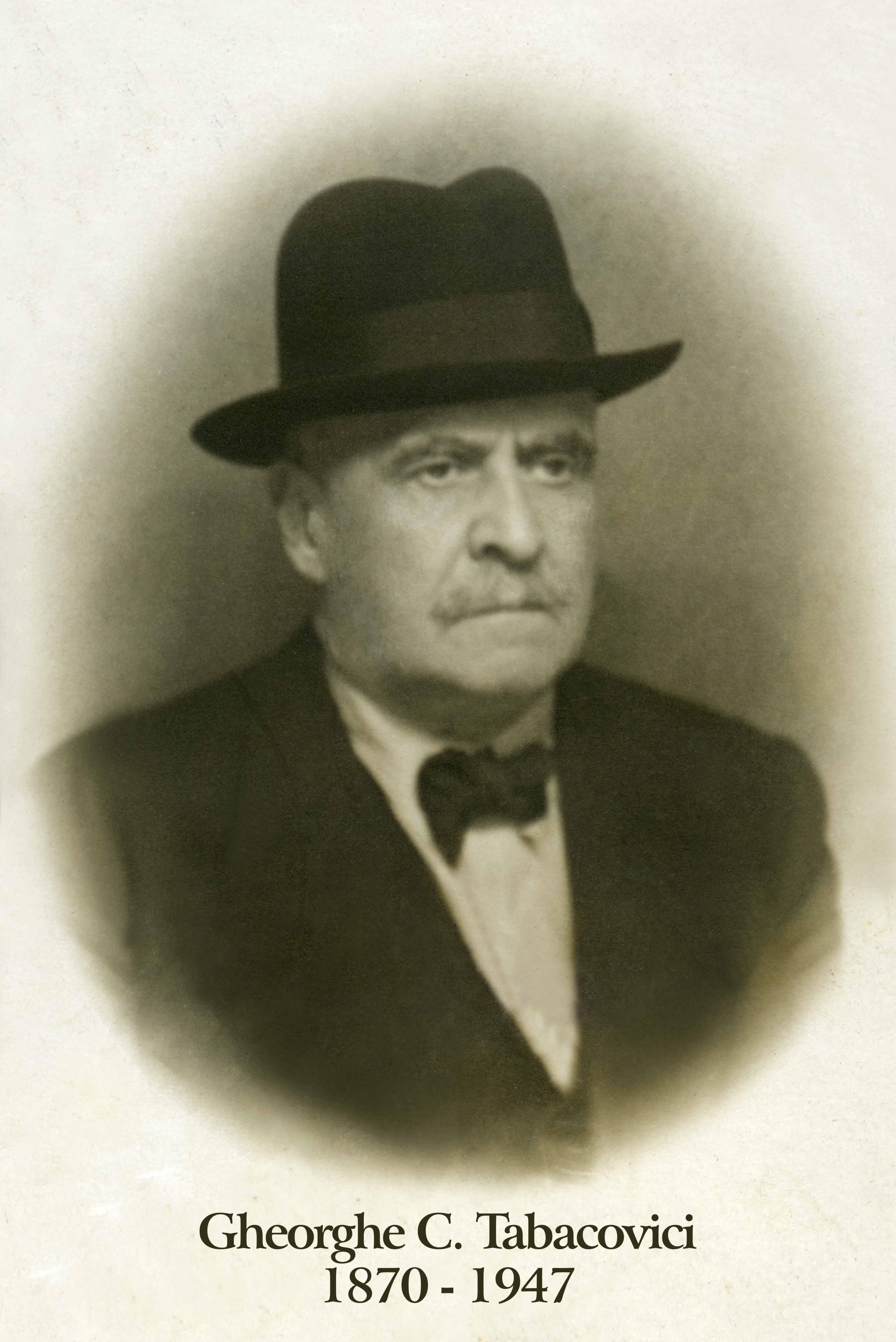 Portrait of Tabacovici C.Gheorghe